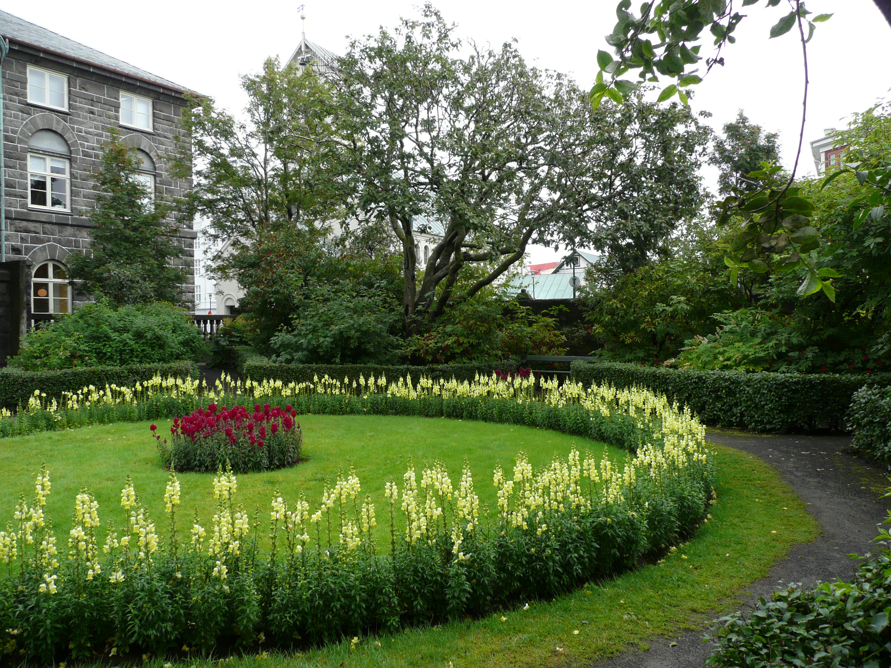 Alþingisgarðurinn park behind Icelandic parliament building